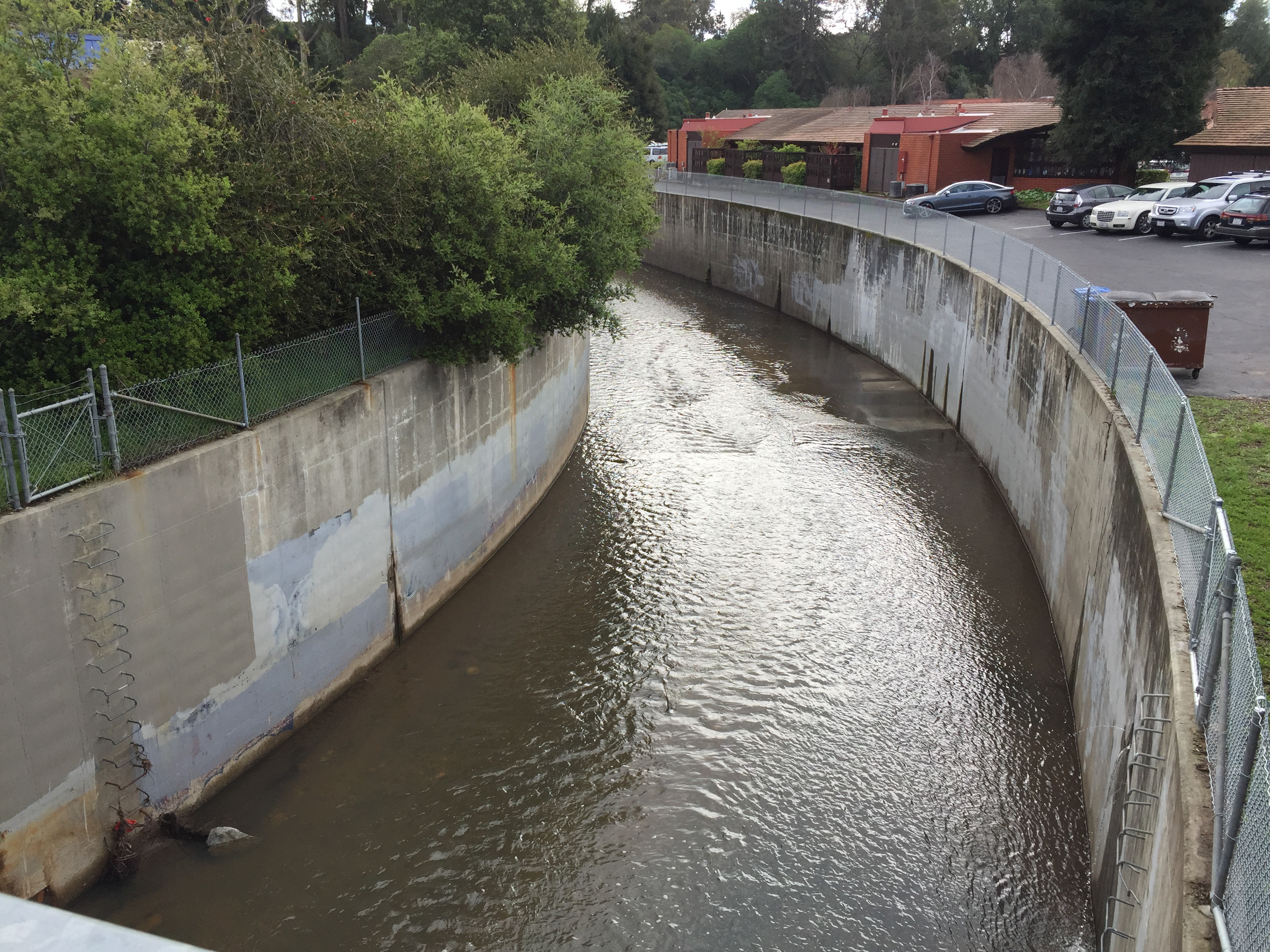 A channelized stretch of Branciforte Creek just before joining up with the San Lorenzo River in downtown Santa Cruz, California.